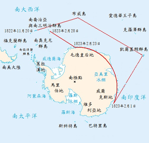 Morrell Antarctic Voyage 1822 in Traditional Chinese